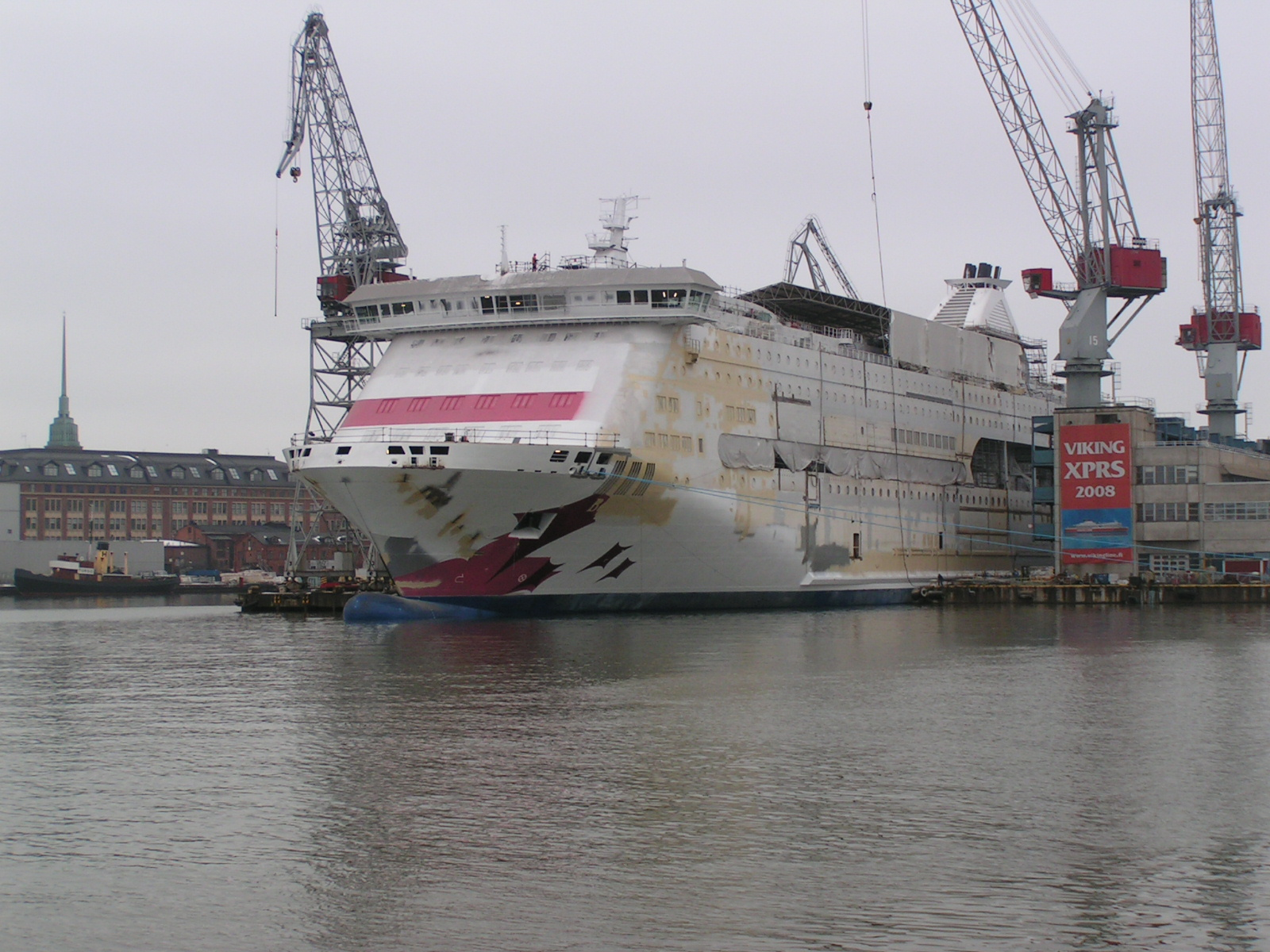 M/S Baltic Princess Under Construction in Helsinki shipyard